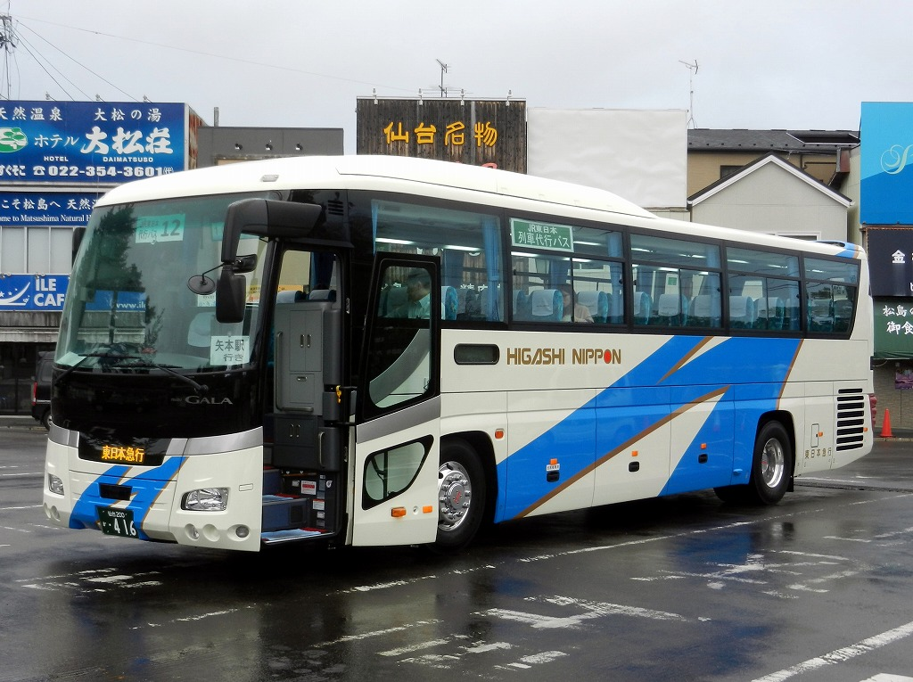 Higashinippon express Isuzu Gala (QRG-RU1ASCJ)JR East Senseki line bustitution